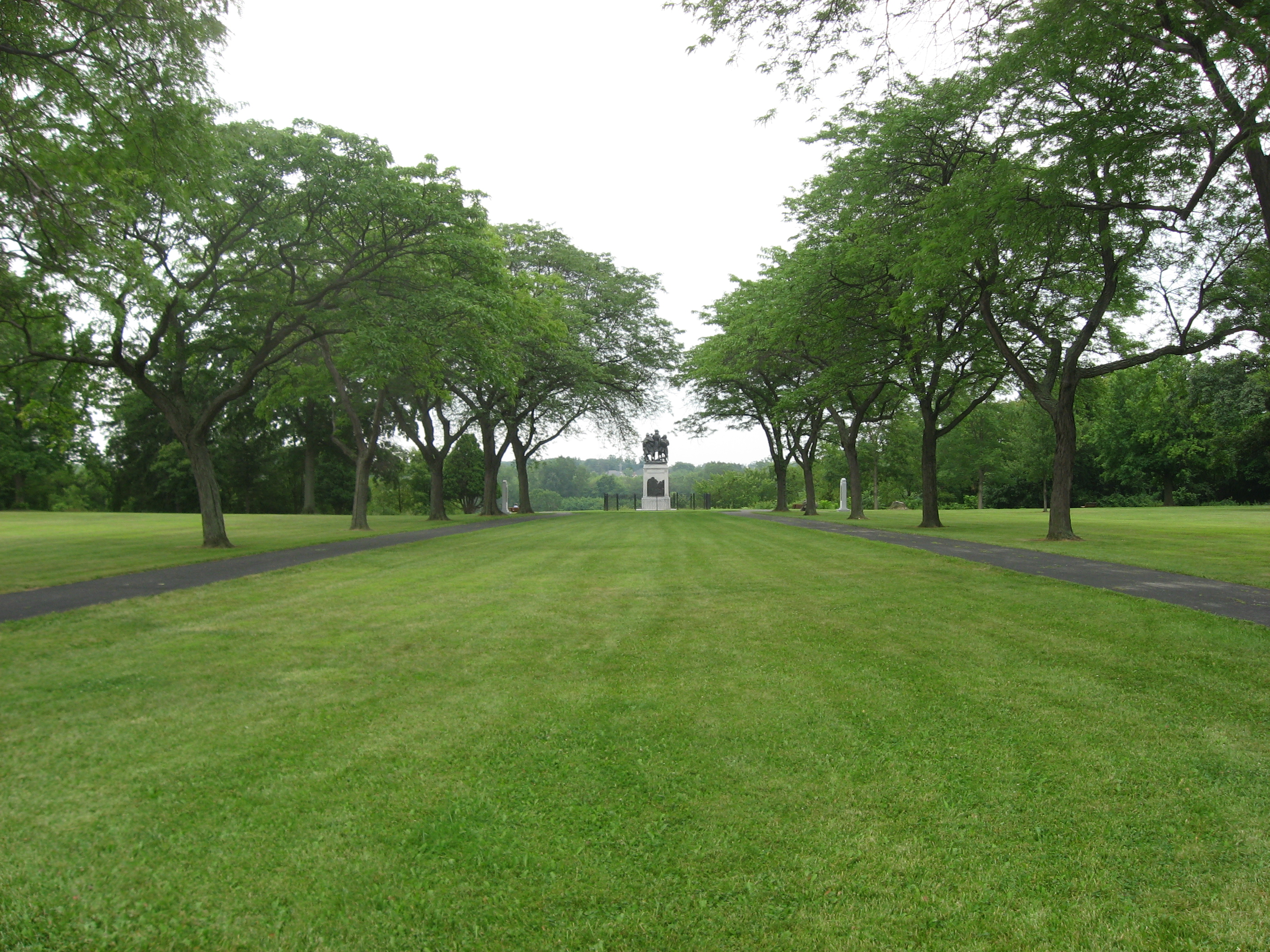 Overview of the Fallen Timbers Battlefield, where the Battle of Fallen Timbers was fought in 1794. Located off U.S. Route 24 in Monclova Township, Lucas County, Ohio, United States, it has been designated a National Historic Landmark.